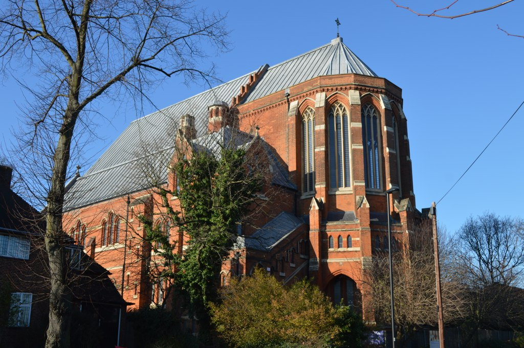 All Saints's parish church, West Dulwich, London: view from the southeast, showing the apsidal chancel